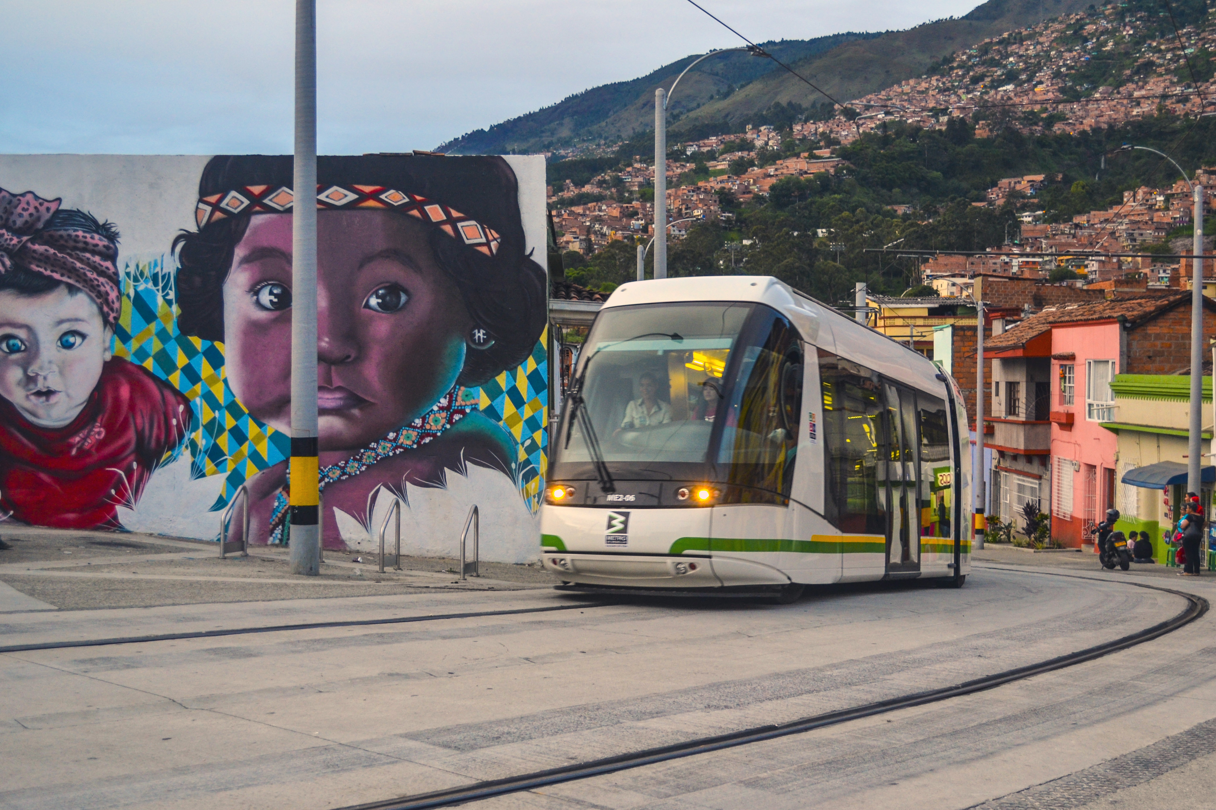 A Translohr car of Medellín's Tranvía de Ayacucho system turning from Carrera 29 onto Av. Ayacucho in May 2016.